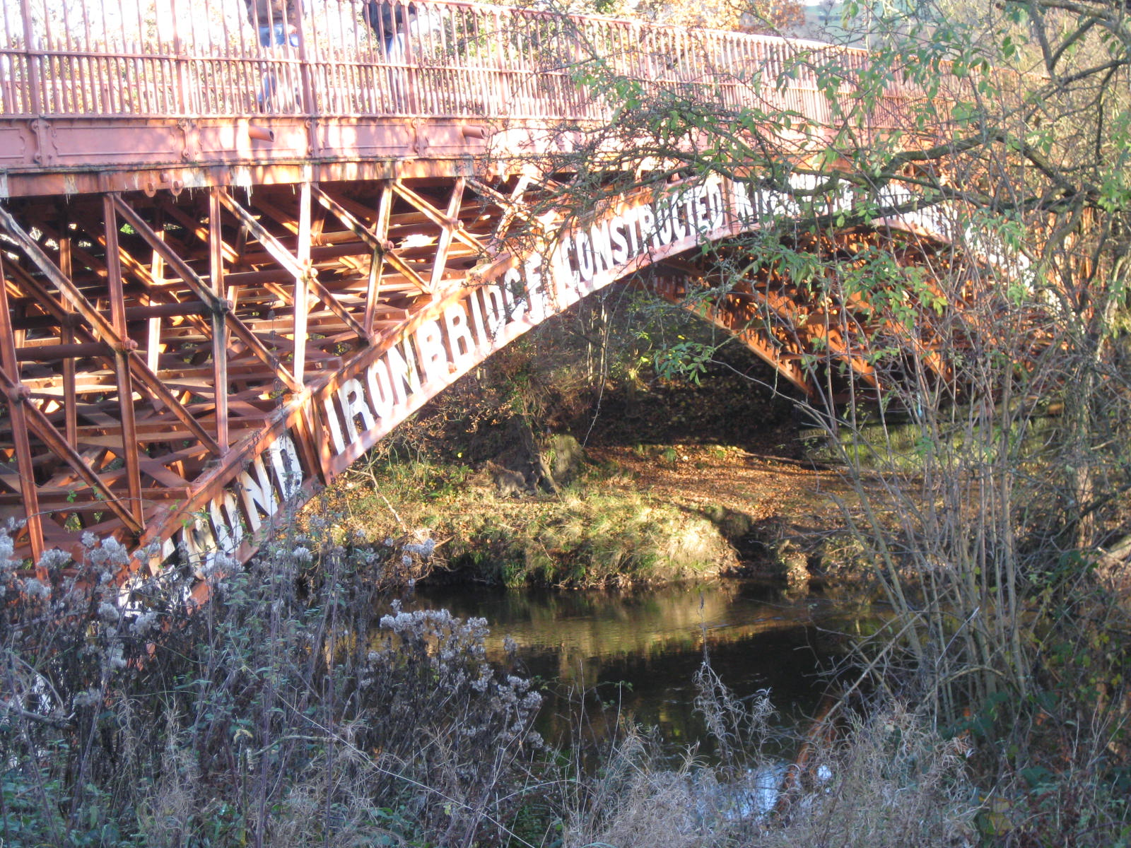 BRYNDERWEN BRIDGE, A single 109-ft span across the Severn (and a smaller span across the canal) on five iron girders. The openwork lettering on the outer ones reads 'This second iron bridge constructed in the county of Montgomery was erected in the year 1852'; 'Thomas Penson, County Surveyor'; 'Brymbo Company, Ironfounders'. (Brymbo Ironworks, later steelworks, near Wrexham -the shot of the Bridge showing the inscription taken from the River - see Geograph-)